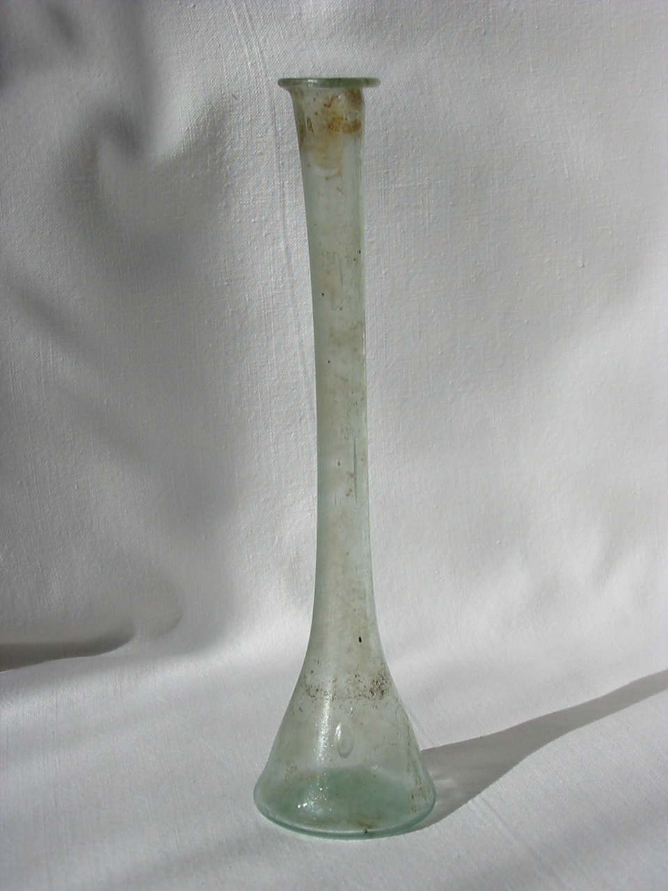 Tall thin-walled conical unguentarium (unguent bottle), Roman, 2nd-3rd cent. AD; ht. 13.9 cm (private collection)